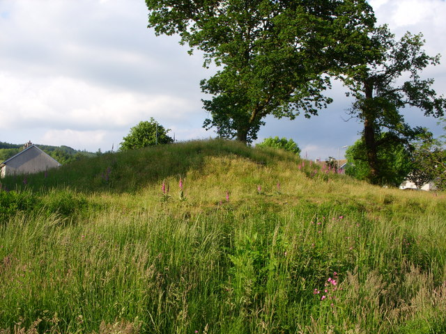 Creebridge Cairn